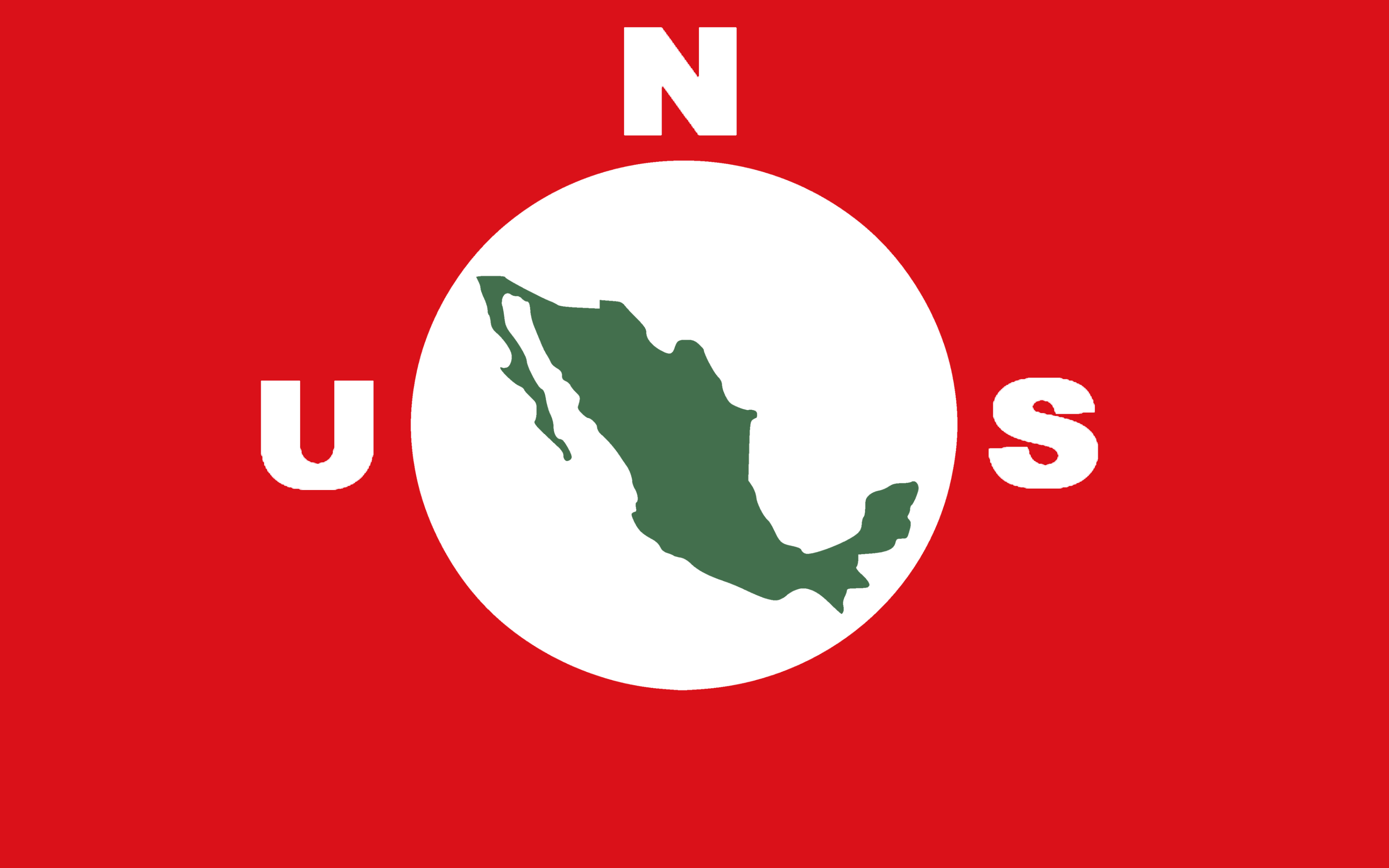 National Synarchist Union flag